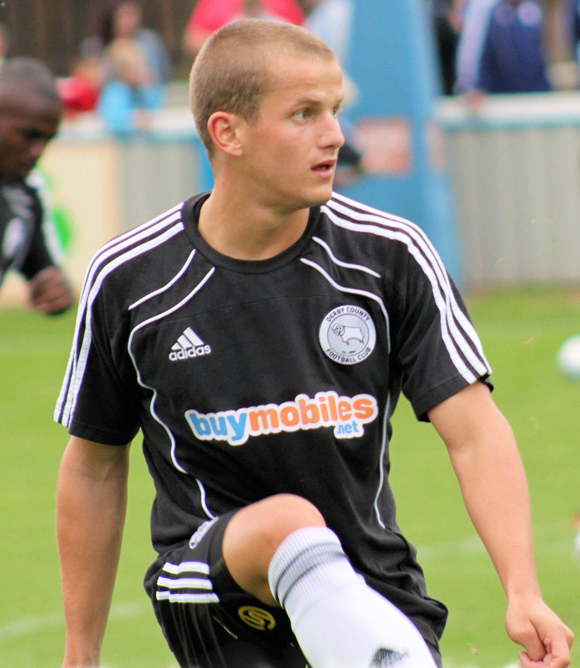 Tomasz Cywka playing for Derby County